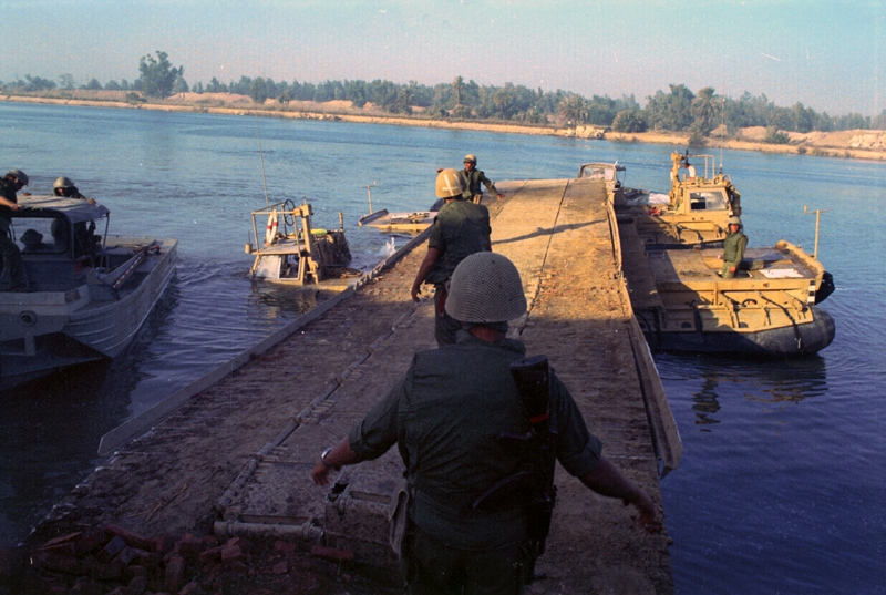 The EWK-Gillois bridgelayer "Timsah" used by the IDF to ford the Suez Canal